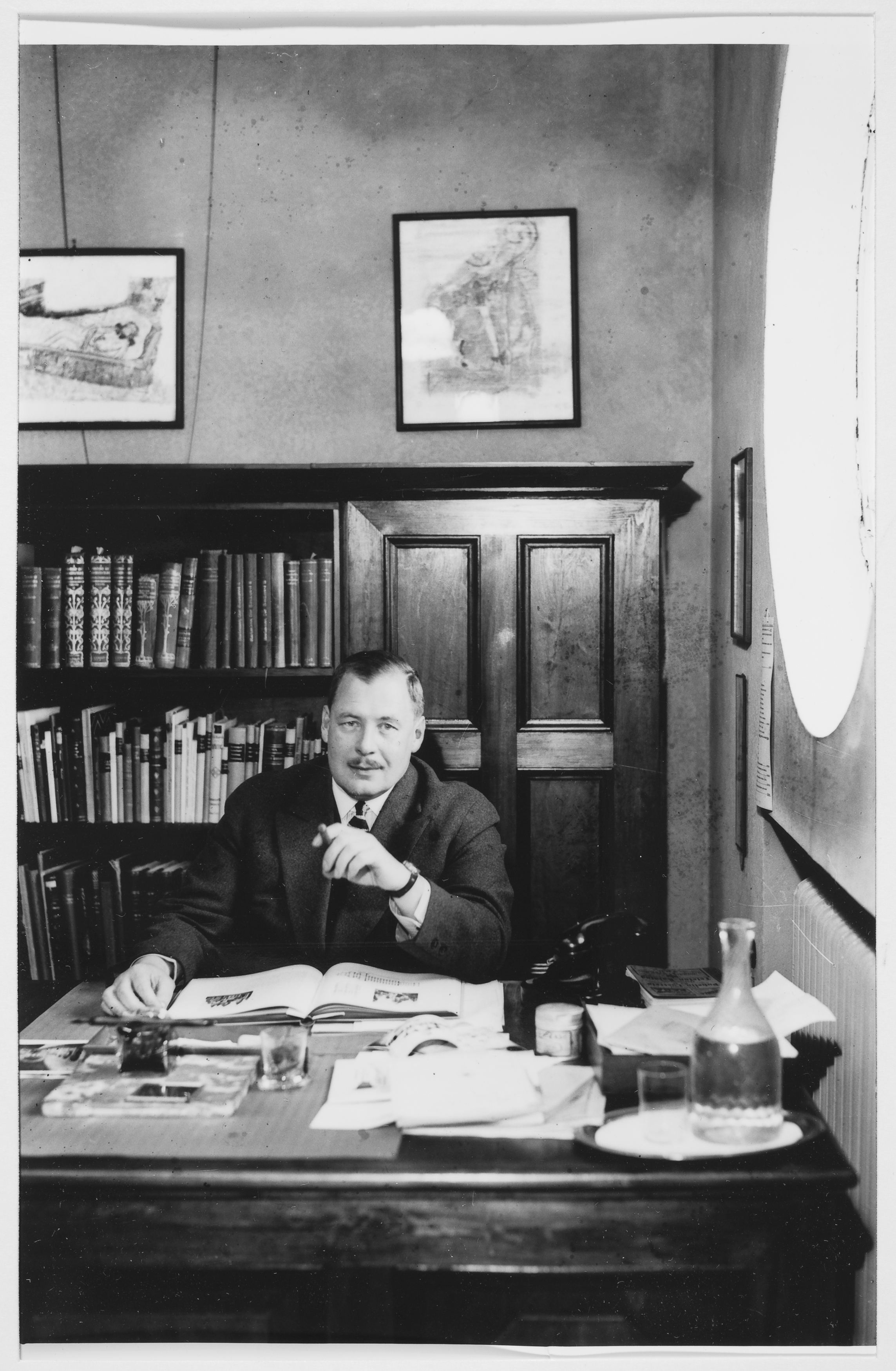 Photograph of the Finnish architect Carolus Lindberg (1889–1955).